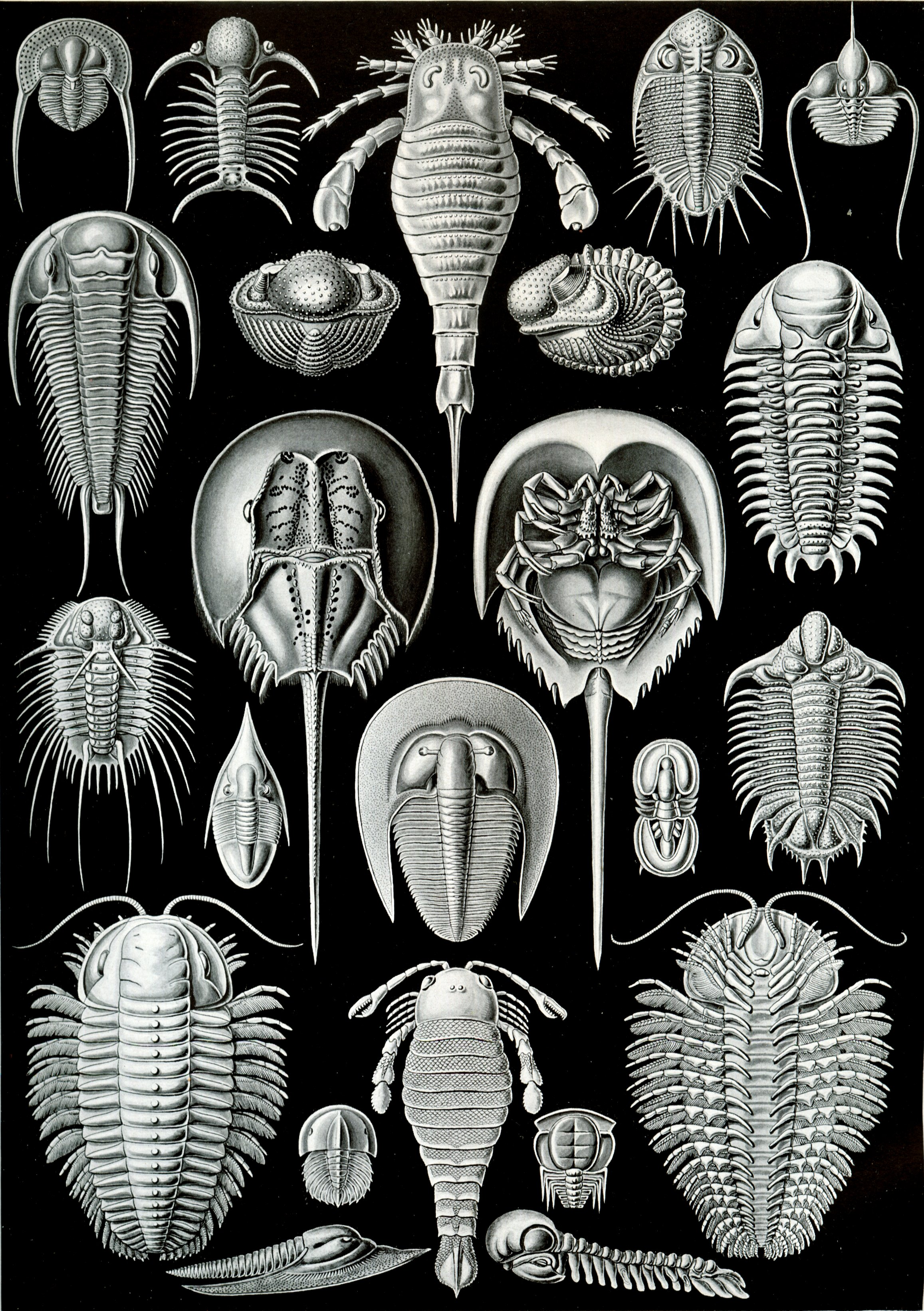 See here for index to numbers. Limulus moluccanus (Clusius) = Tachypleus gigas (Müller, 1785), adult male from above Limulus moluccanus (Clusius) = Tachypleus gigas (Müller, 1785), adult male from below Limulus moluccanus (Clusius) = Tachypleus gigas (Müller, 1785), larva Eurypterus Fischeri (Eichwald) = Eurypterus tetragonophthalmus (Fischer, 1839) / Baltoeurypterus tetragonophthalmus (Fischer, 1839), from above Pterygotus anglicus (Agassiz) = Pterygotus anglicus Agassiz, 1844, from above Trinucleus Goldfussi (Barrande) = Onnia goldfussi (Barrande, 1846), from above Deiphon Forbesi (Barrande) = Deiphon forbesi Barrande, 1850, from above Phacops latifrons (Bronn) = Phacops latifrons (Bronn, 1825), curled-up individual (8a: from forward, 8b: from the side) Dalmania punctata (Barrande) = Asteropyge punctata (Steininger, 1831), from above Ampyx Rouaulti (Barrande) = Raphiophorus rouaulti (Barrande, 1852), from above Paradoxides bohemicus (Boeck) = Paradoxides bohemicus (Boeck, 1828), from above Cheirurus insignis (Beyrich) = Cheirurus insignis Beyrich, 1845, from above Acidaspis Dufresnoyi (Barrande) = Selenopeltis buchi (Barrande 1846), from above Megalaspis extenuatus (Angelin) = Megistaspidella extenuata (Wahlenberg, 1821), from above Harpes ungula (Sternberg) = Bohemoharpes ungula (Sternberg, 1833) (15a: from above, 15b: from the side) Agnostus pisiformis (Linné) = Agnostus pisiformis (Linnaeus, 1757), from above Lichas palmata (Barrande) = Trochurus speciosus Beyrich, 1845, from above Hydrocephalus saturnoides (Barrande) = Eccaparadoxides pusillus (Barrande, 1846) / Phanoptes pusillus (Barrande, 1846), from above Sphaerexochus mirus (Beyrich) = Sphaerexochus mirus Beyrich, 1845, fron the side Triarthrus Becki (Beecher) = Triarthrus becki Green 1832 (20a: from above, 20b: from below)